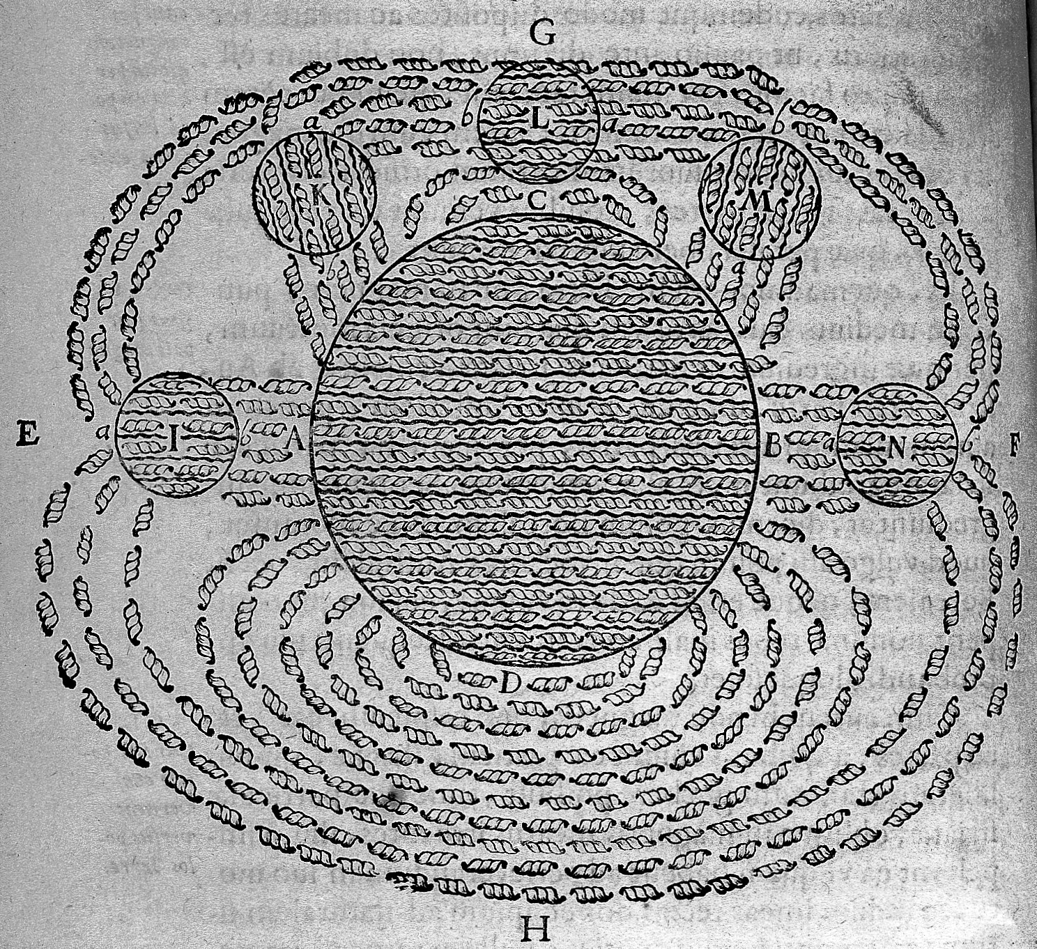 DESCARTES, Rene (1596-1650) R. Descartes, Opera philosophica. Amsterdam: L. Elzevier, 1650. Illustration on page 268. Rare Books Keywords: opera philosophica; rene descartes; epb